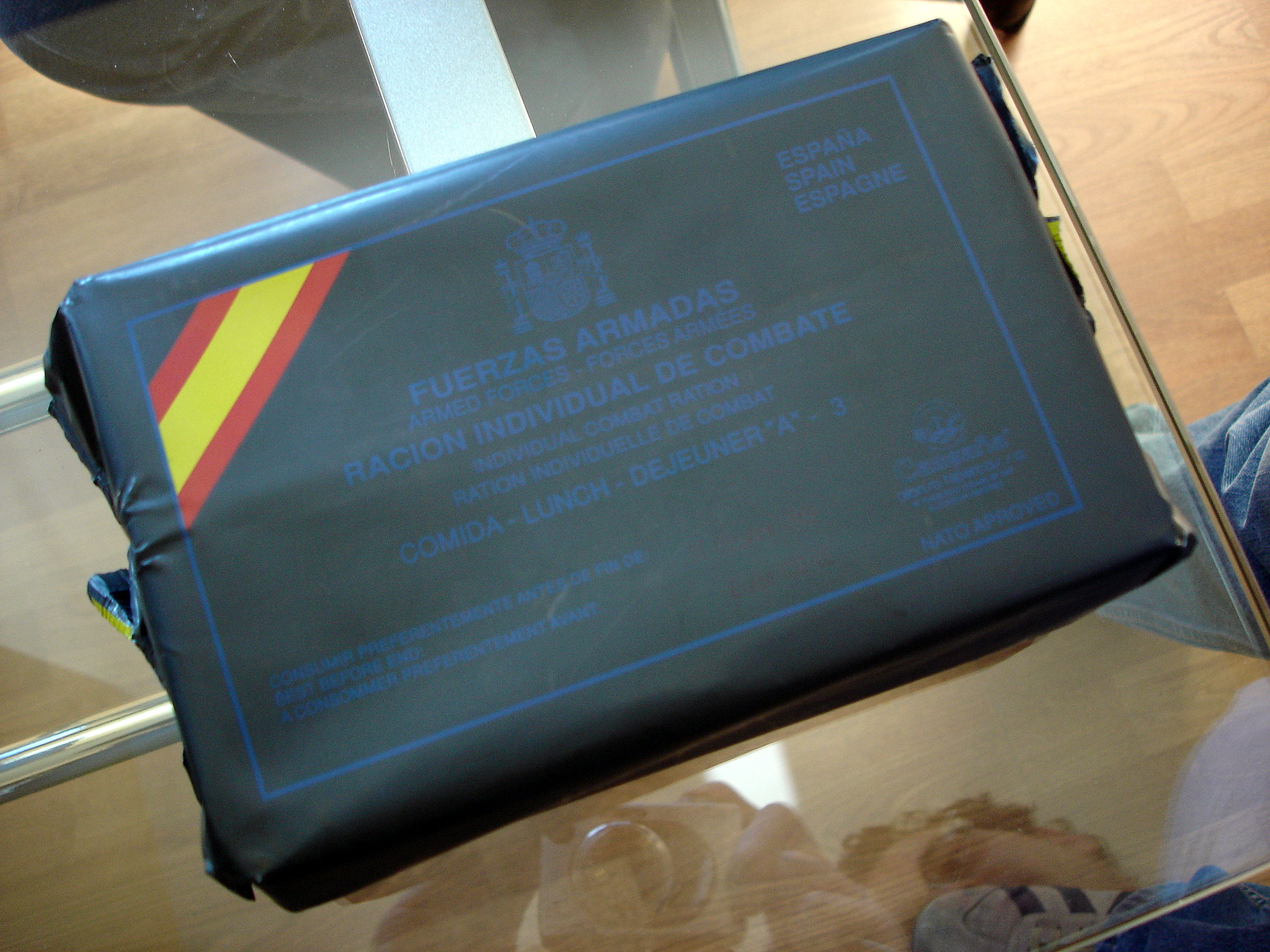 Individual combat ration of the Spanish Armed Forces.